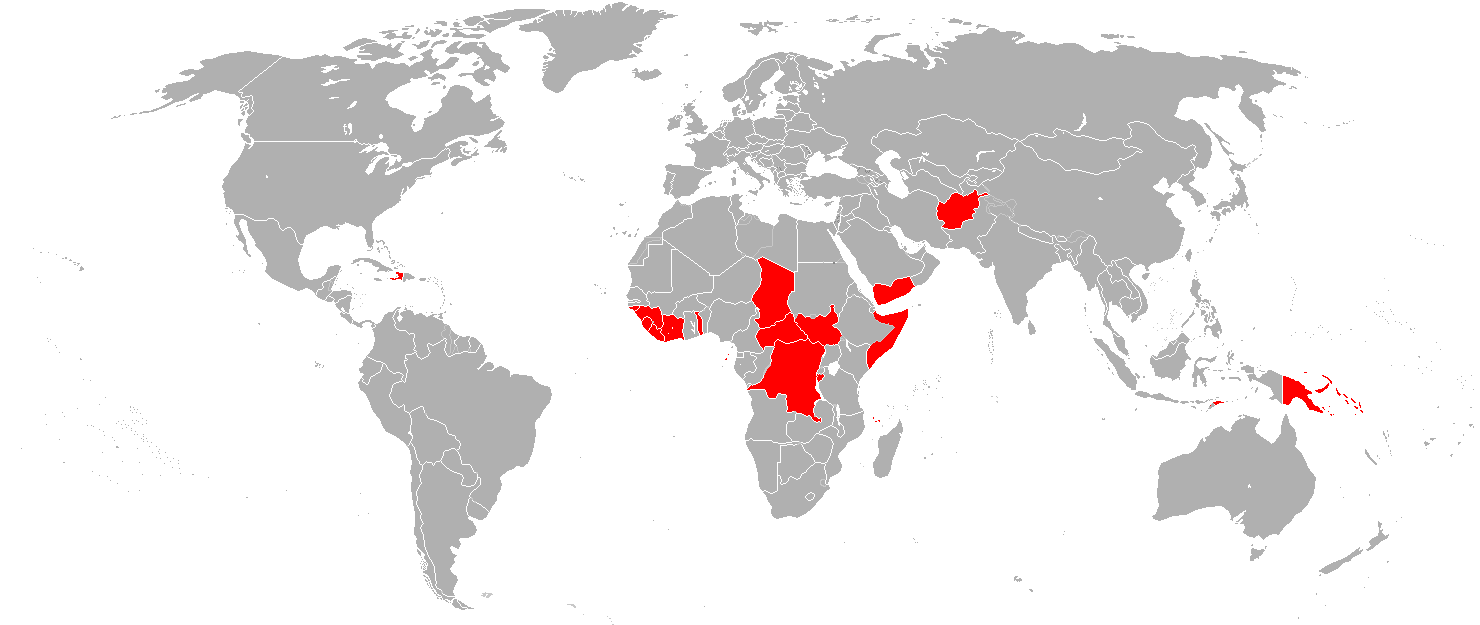 Members of "g7+ states" [1]